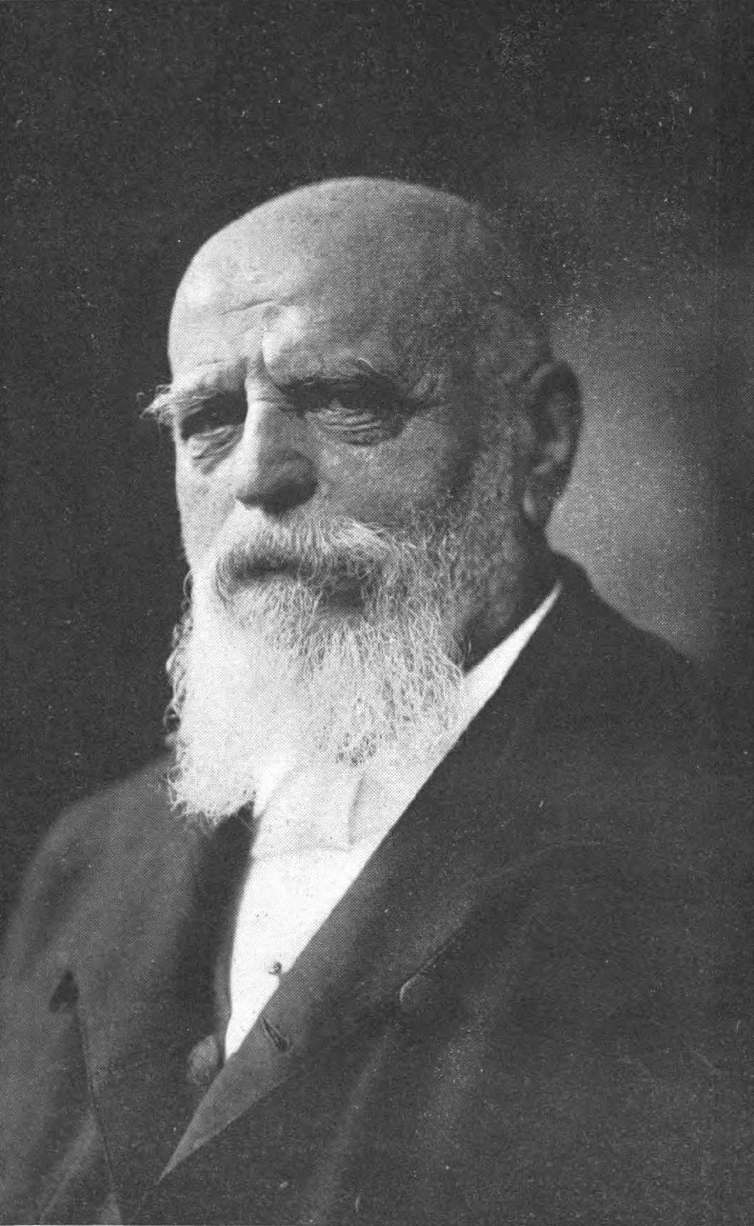 Portrait photograph of Detroit physician Hermann Kiefer